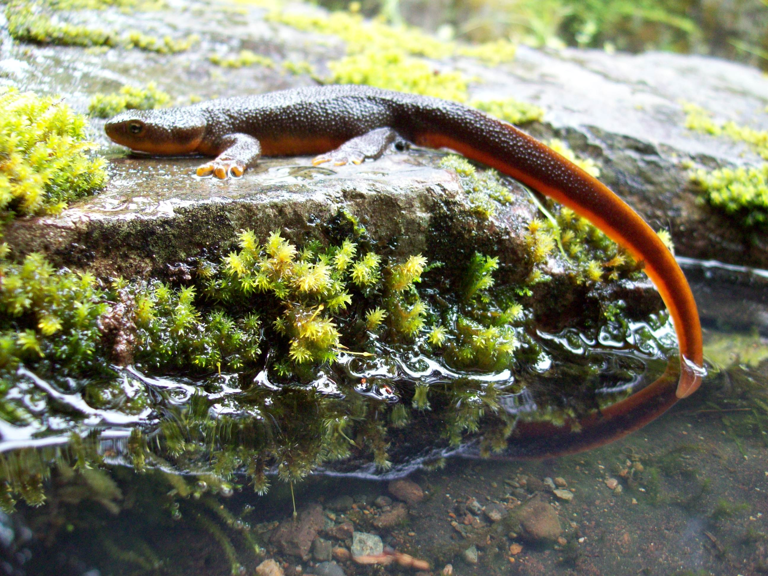 A rough-skinned newt at Brice Creek near Cottage Grove, Oregon, United States